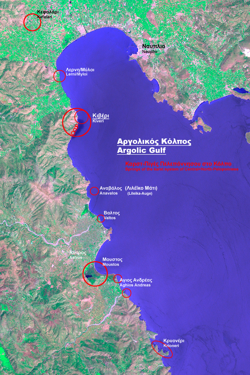 East coast of the Peloponnese, the Argolic Gulf and a chain of karst springs (coastal and submarine springs, beeing related to their natural water base level). The karst water at sea level comes mainly from the karstified plateau (500 – 700 m) of the Northeast Peloponnese. Many small karst springs emerge in eight large and several smaller poljes (closed depressions). Their fresh water then collects in katavothres (pl., Greek for ponors) and flows through conduits to the karst base level “sea”. Conduits and karst springs at sea level may be compared with similar karst conditions at coasts of the Mediterranean Sea. Image based on Landsat 7, NASA World Wind.